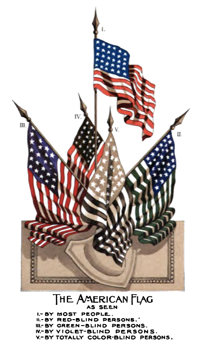 Illustration of normal and various colorblind visions using a US Flag